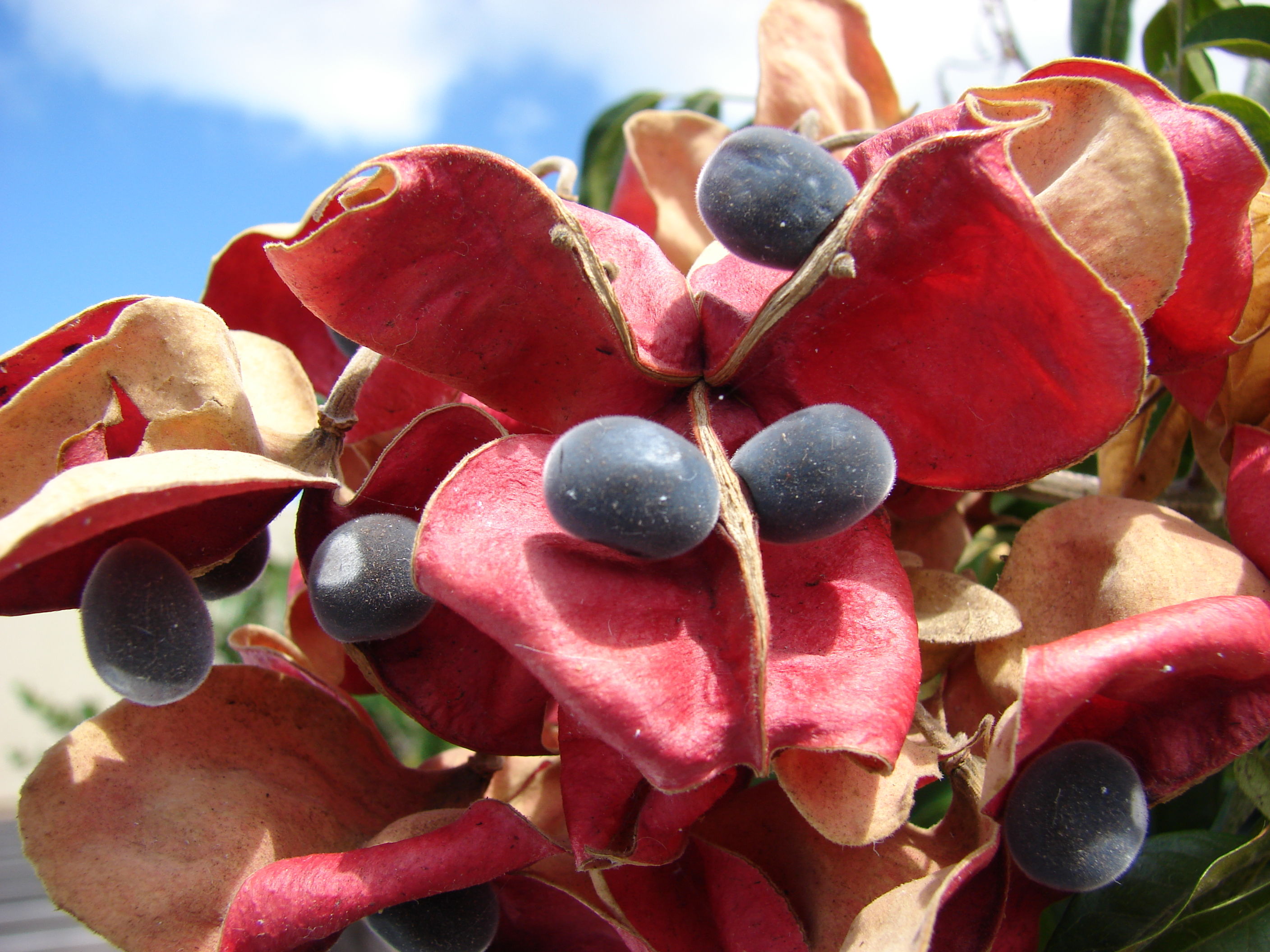 Majidea zanquebarica (seeds and pods). Location: Maui, Lahaina industrial complex